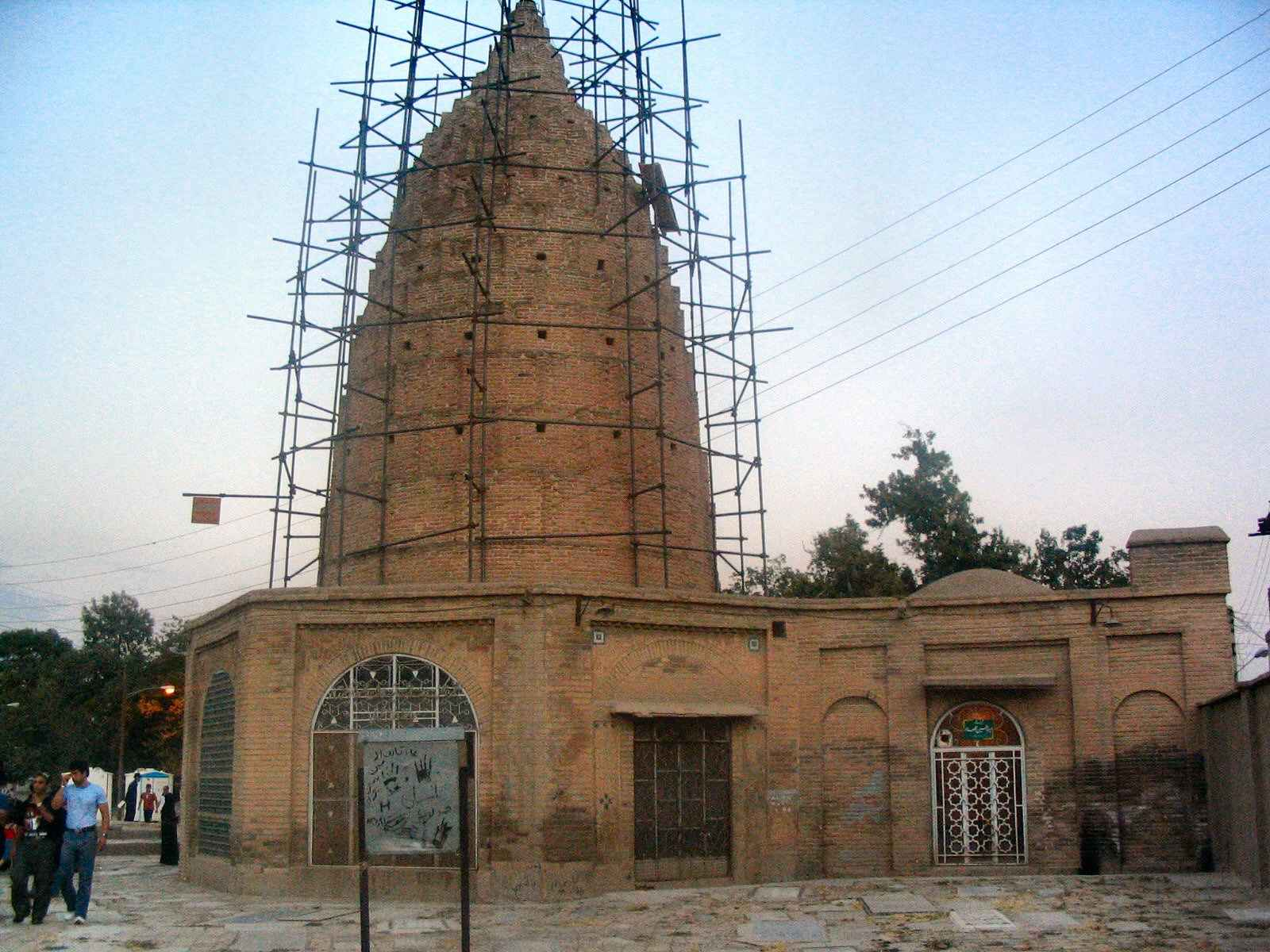 Tomb of Imamzadeh Ja'far in an old suburb of Borujerd.